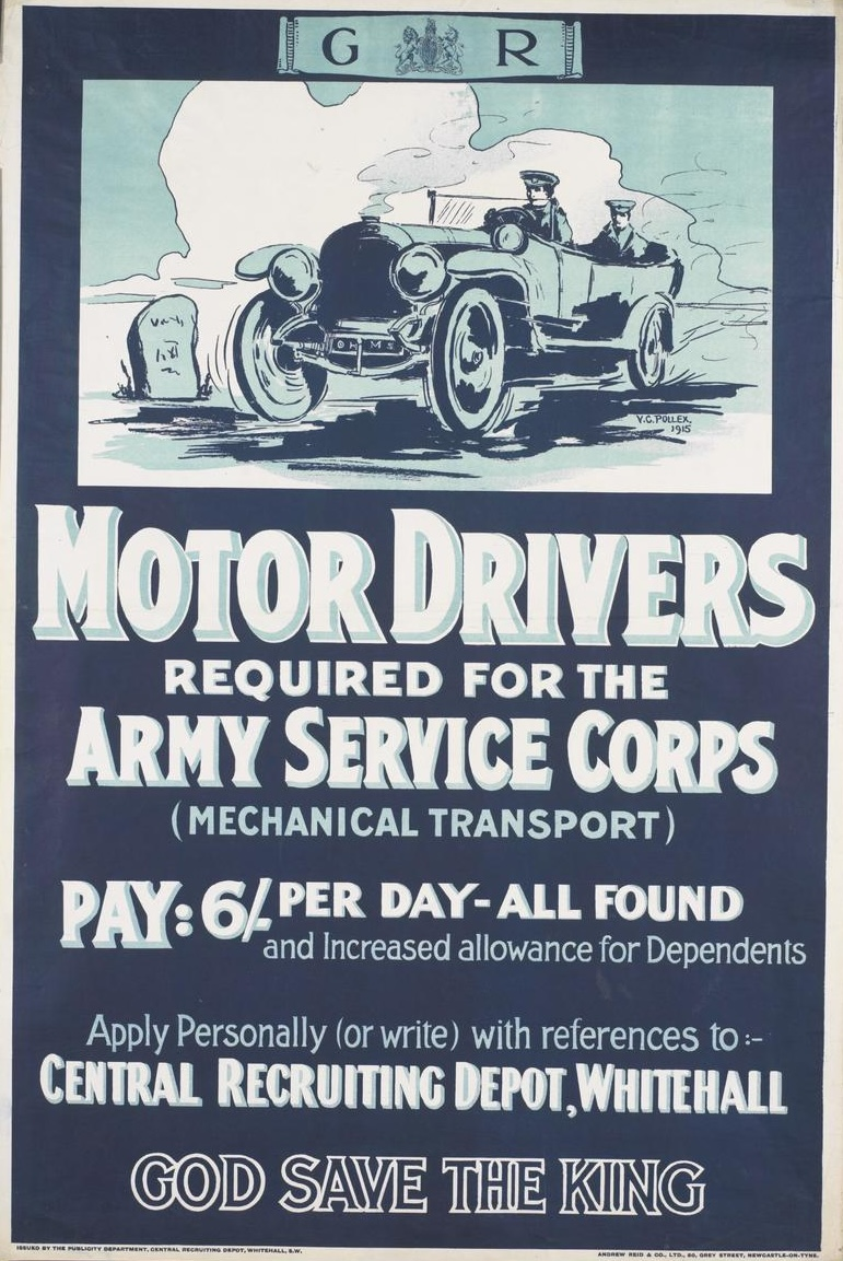 British Army recruiting poster : "Motor Drivers Required For The Army Service Corps".